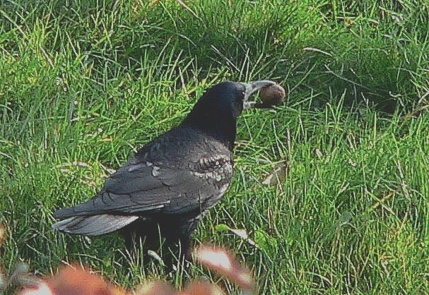 Author is Ulrich Prokop (Scops) Herbst 2005